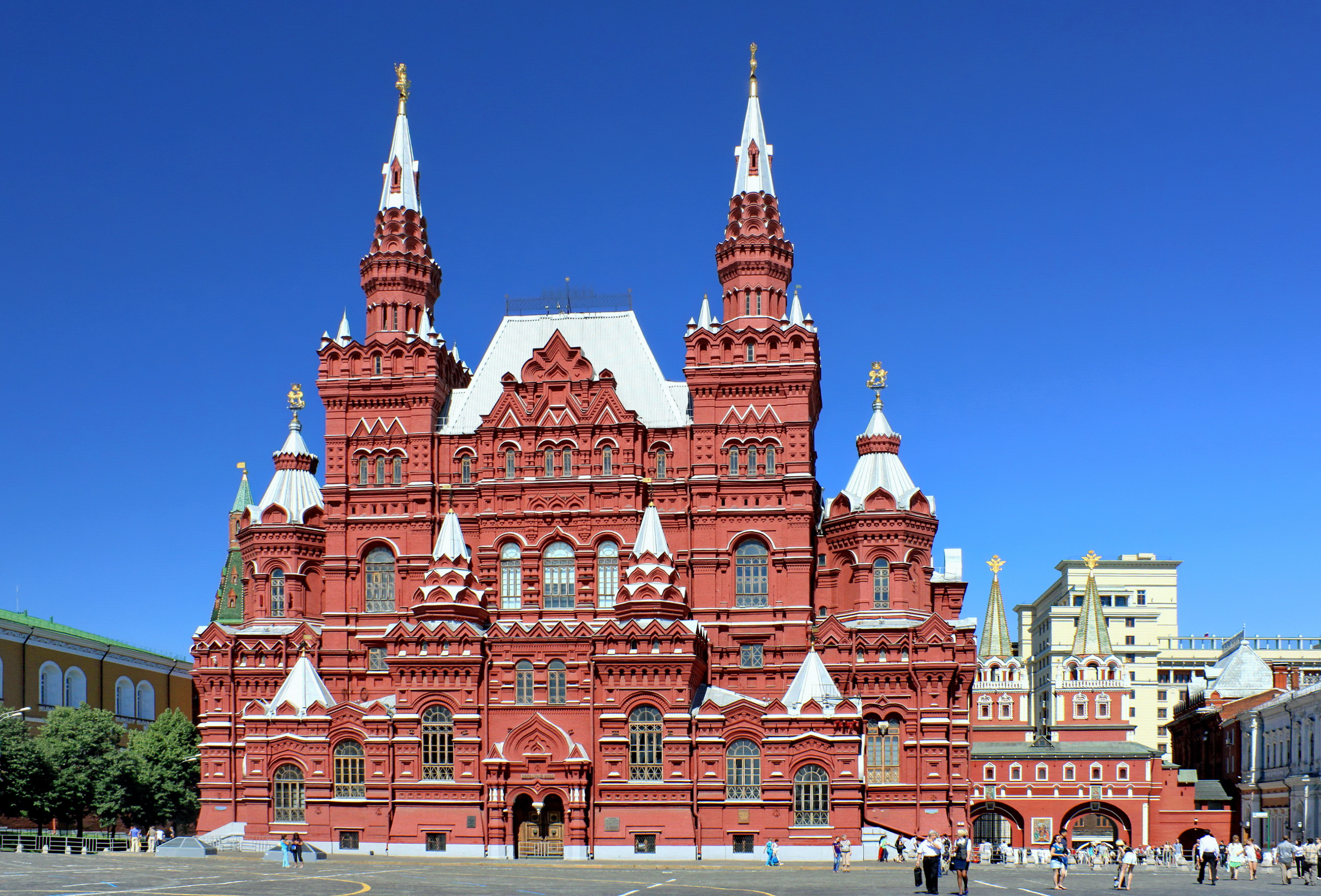 State Historical Museum. Red Square, Moscow, Russia.